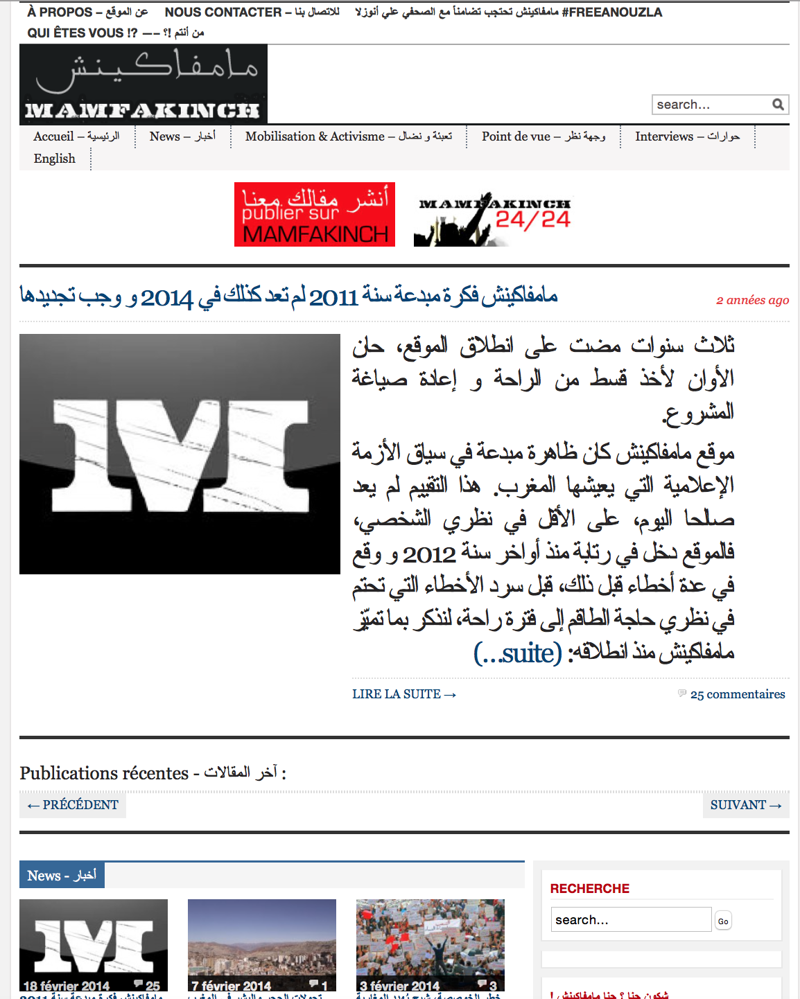 Front page screenshot of the website , as of February 28th, 2016